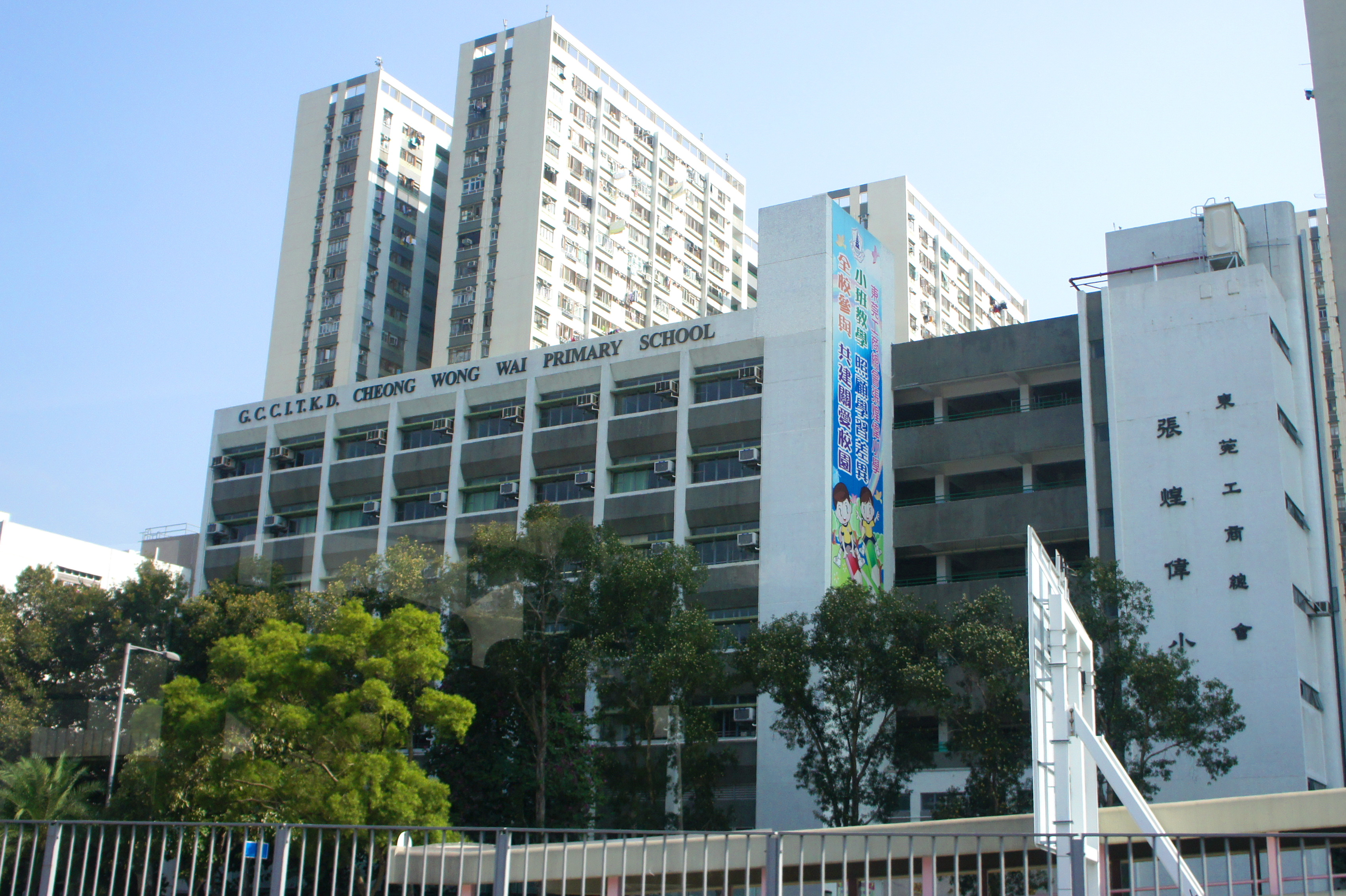 GCCITKD Cheong Wong Wai Primary School, Sha Tin, New Territories, Hong Kong